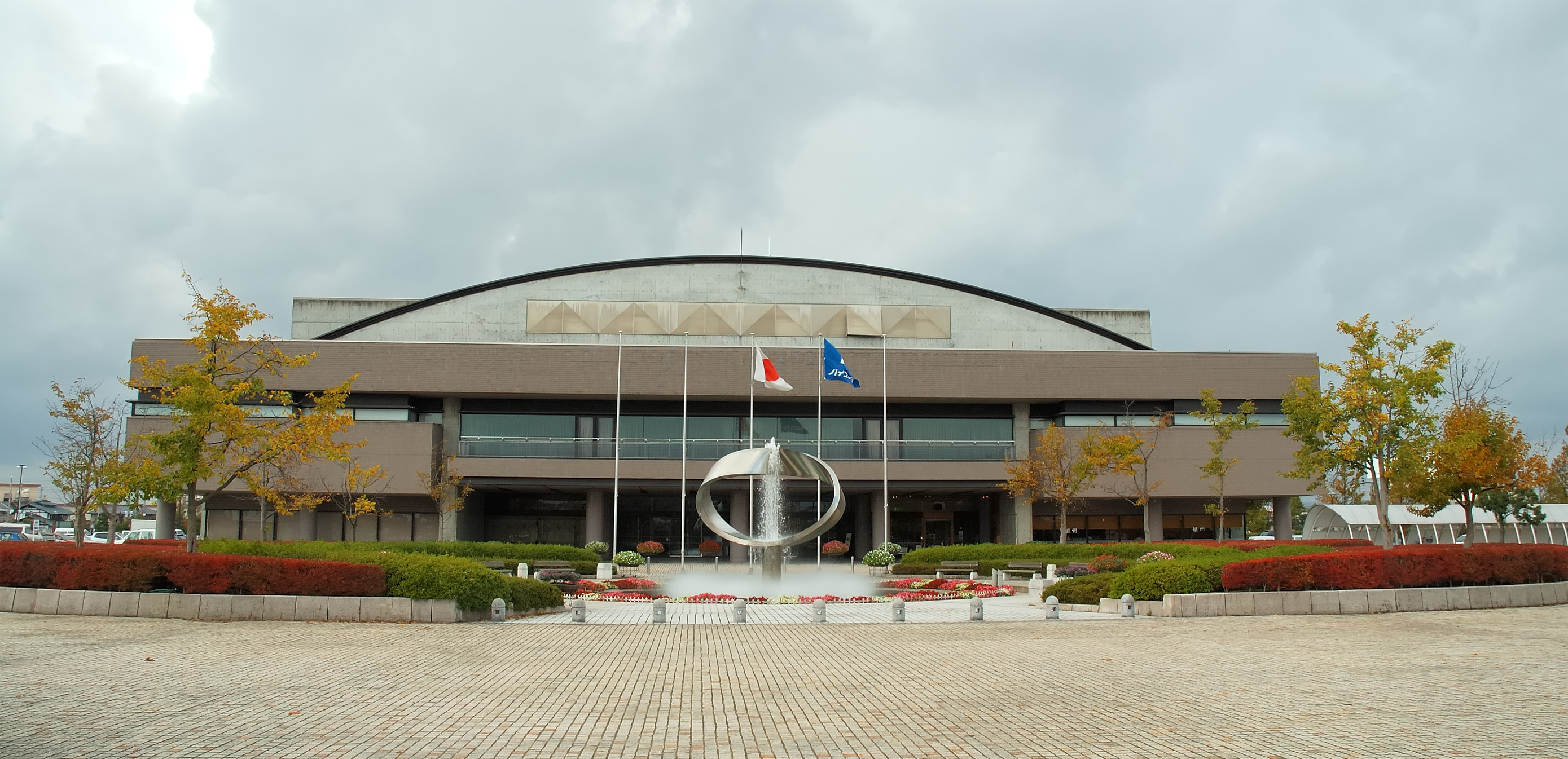 Convention Center Hive Nagaoka in Nagaoka City, Niigata Prefecture, Japan